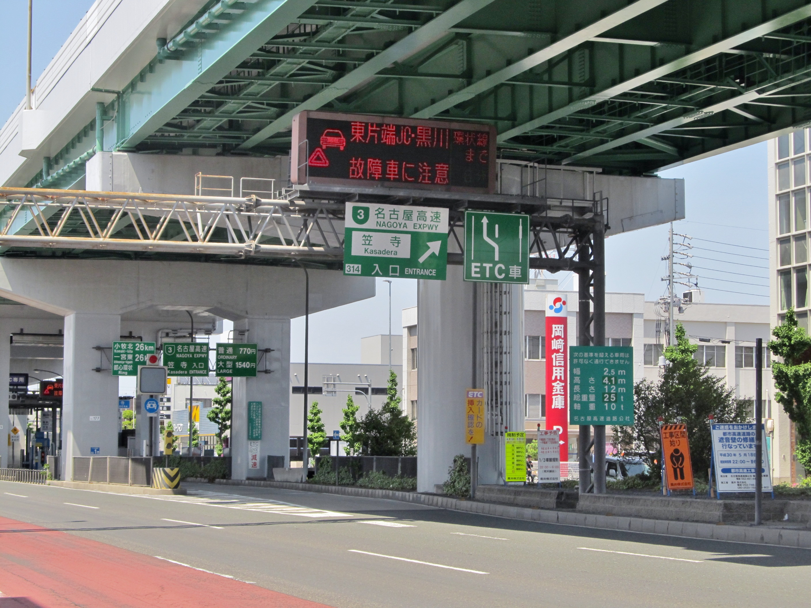 Nagoya Expressway Route 3 Kasadera Entrance